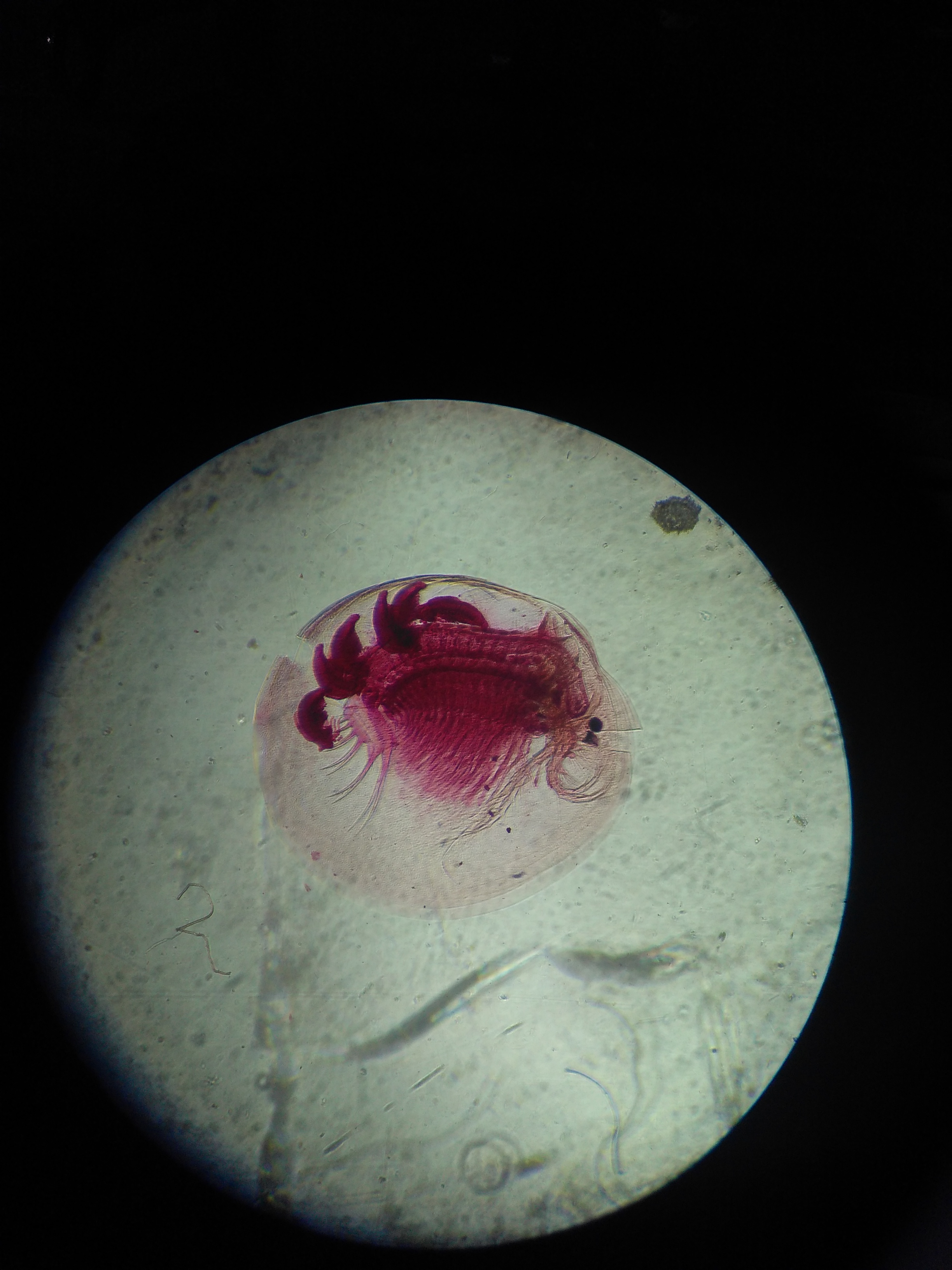 Image of Cyclestherida, suborder of the Diplostraca order, focused at the 40x zoom on optical microscopy